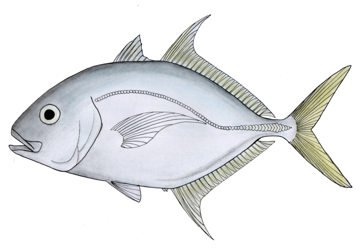 Hand drawn and coloured image of C. chrysophrys, the longnose trevally. based on Fishbase photos by JE Randall